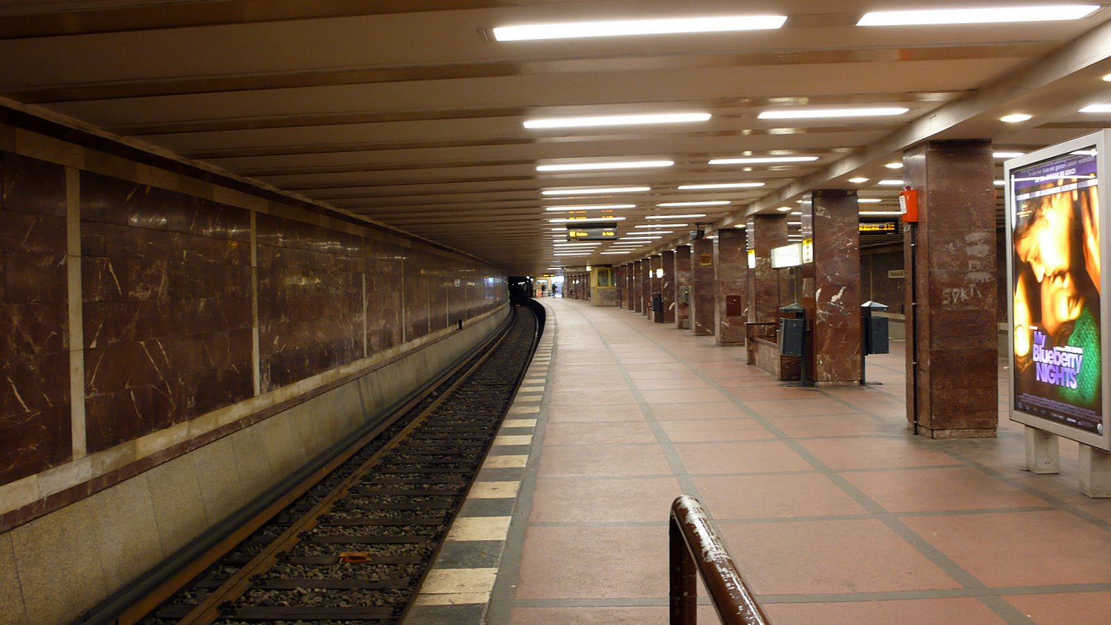 Mohrenstr subway